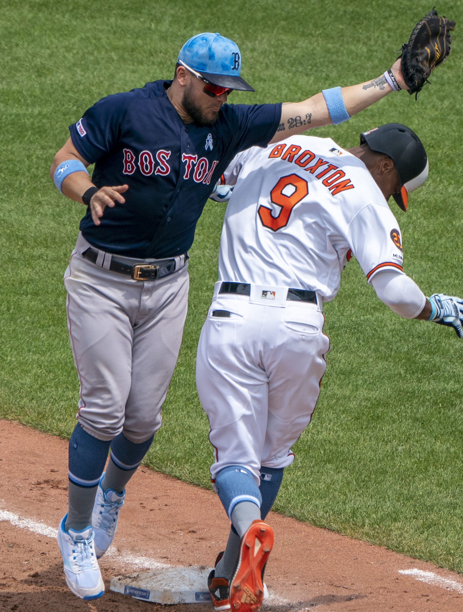 Michael Chavis of the Boston Red Sox attempts to field a throw at first base while Keon Broxton of the Baltimore Orioles attempts to beat out the throw during a 2019 game at Oriole Park at Camden Yards in Baltimore.